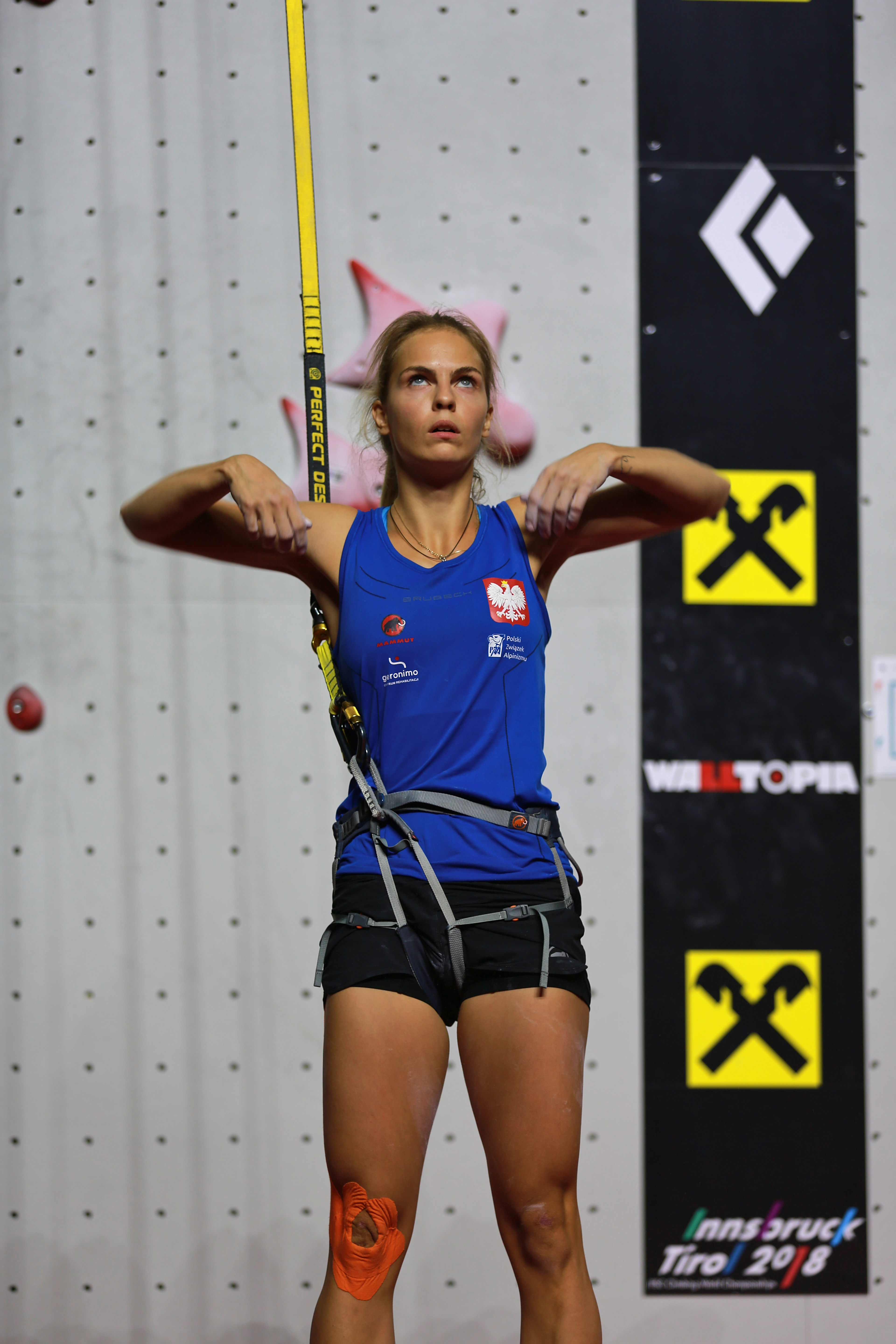 Climbing World Championships 2018 Speed Eighth-finals